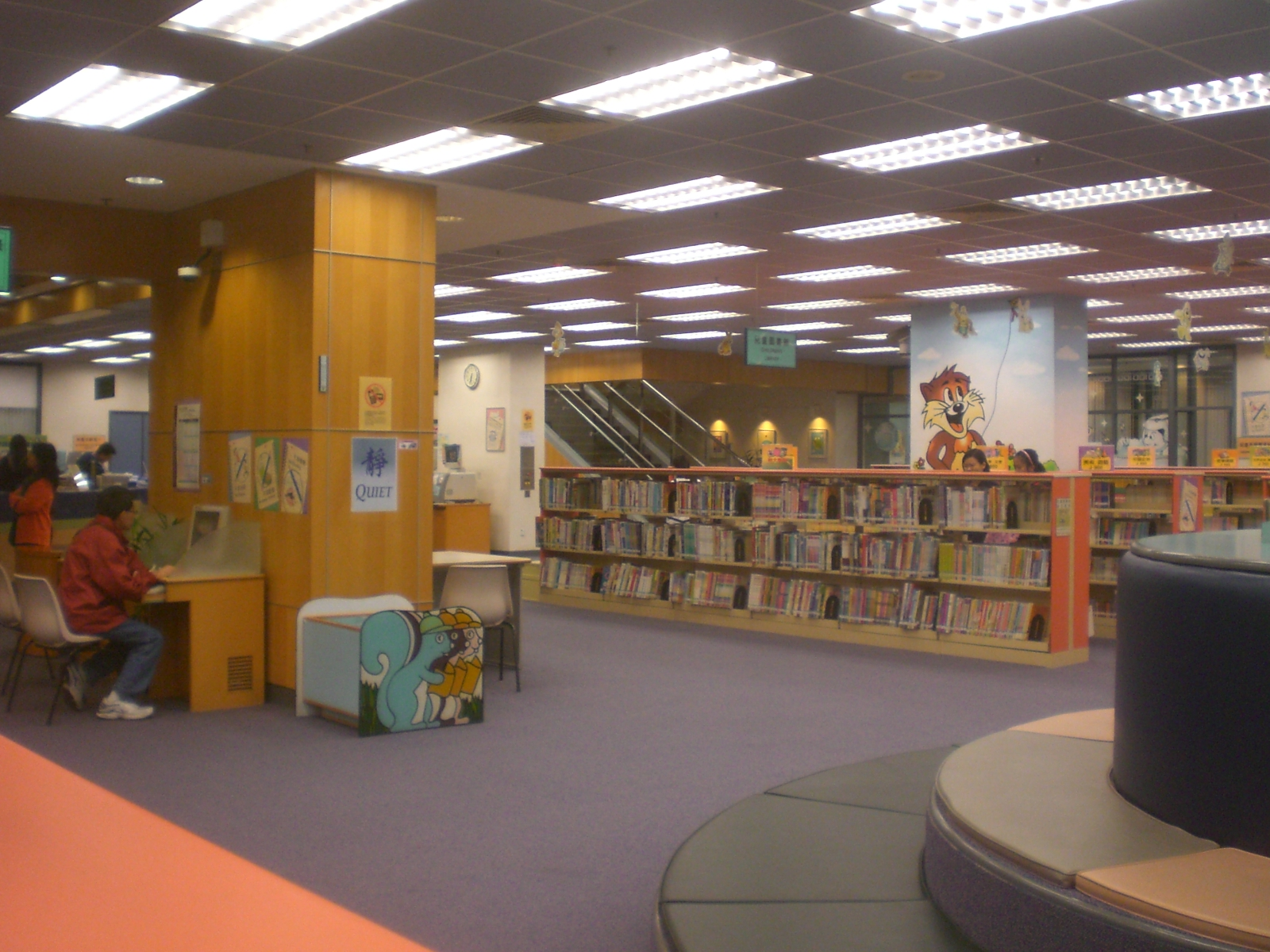 香港柴灣公共圖書館